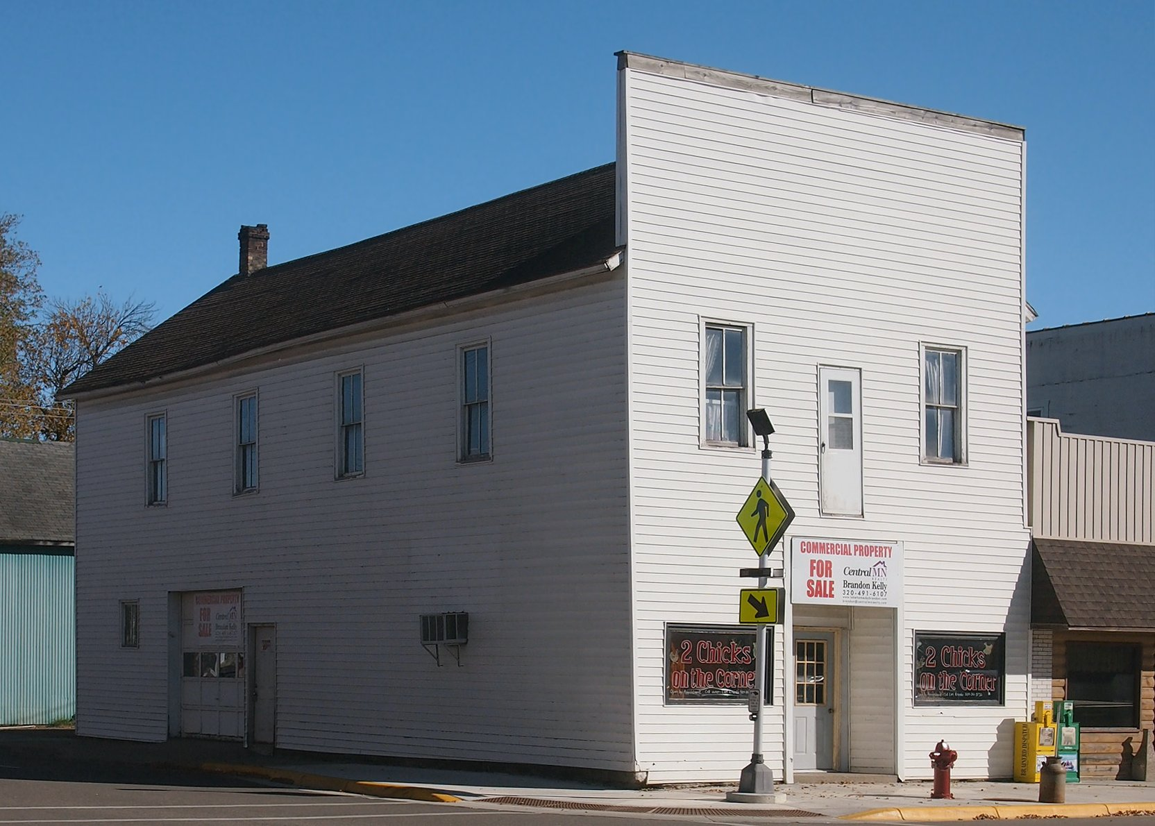 Kahlert Mercantile Store, Browerville, Minnesota, United States. Viewed from the northwest.